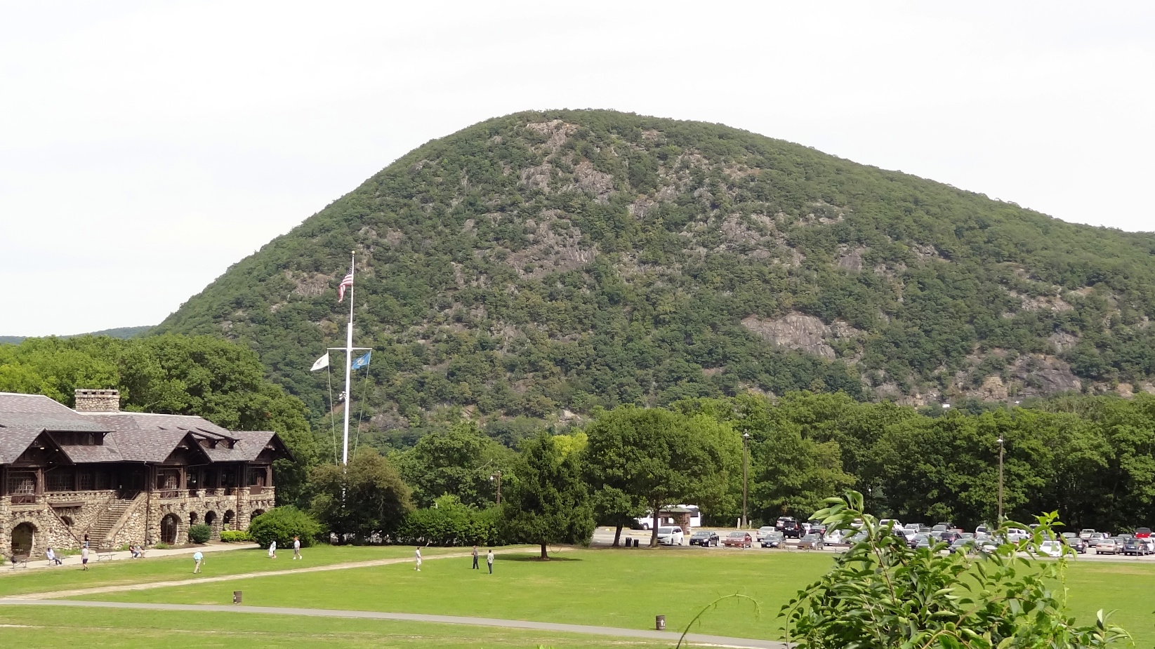 View of the Bear Mountain Inn with Anthony's Nose in background.